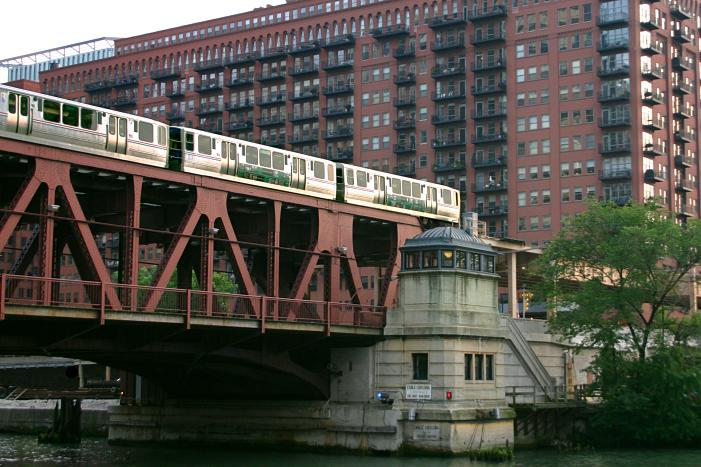 A westbound Green Line train crosses the south fork of the Chicago River, 2004, by Rick Dikeman